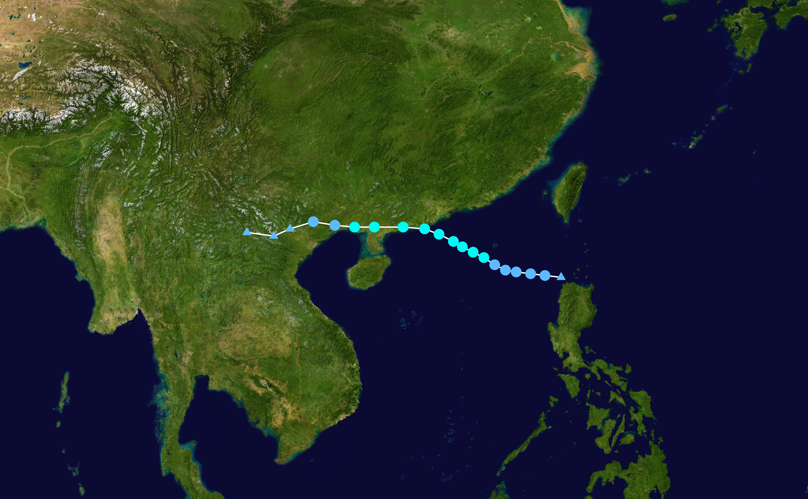 Track map of Tropical Storm Kammuri of the 2008 Pacific typhoon season. The points show the location of the storm at 6-hour intervals. The colour represents the storm's maximum sustained wind speeds as classified in the Saffir–Simpson scale (see below), and the shape of the data points represent the nature of the storm, according to the legend below. Saffir–Simpson scale Tropical depression≤38 mph≤62 km/h Category 3111–129 mph178–208 km/h Tropical storm39–73 mph63–118 km/h Category 4130–156 mph209–251 km/h Category 174–95 mph119–153 km/h Category 5≥157 mph≥252 km/h Category 296–110 mph154–177 km/h Unknown Storm type Tropical cyclone Subtropical cyclone Extratropical cyclone / Remnant low / Tropical disturbance / Monsoon depression